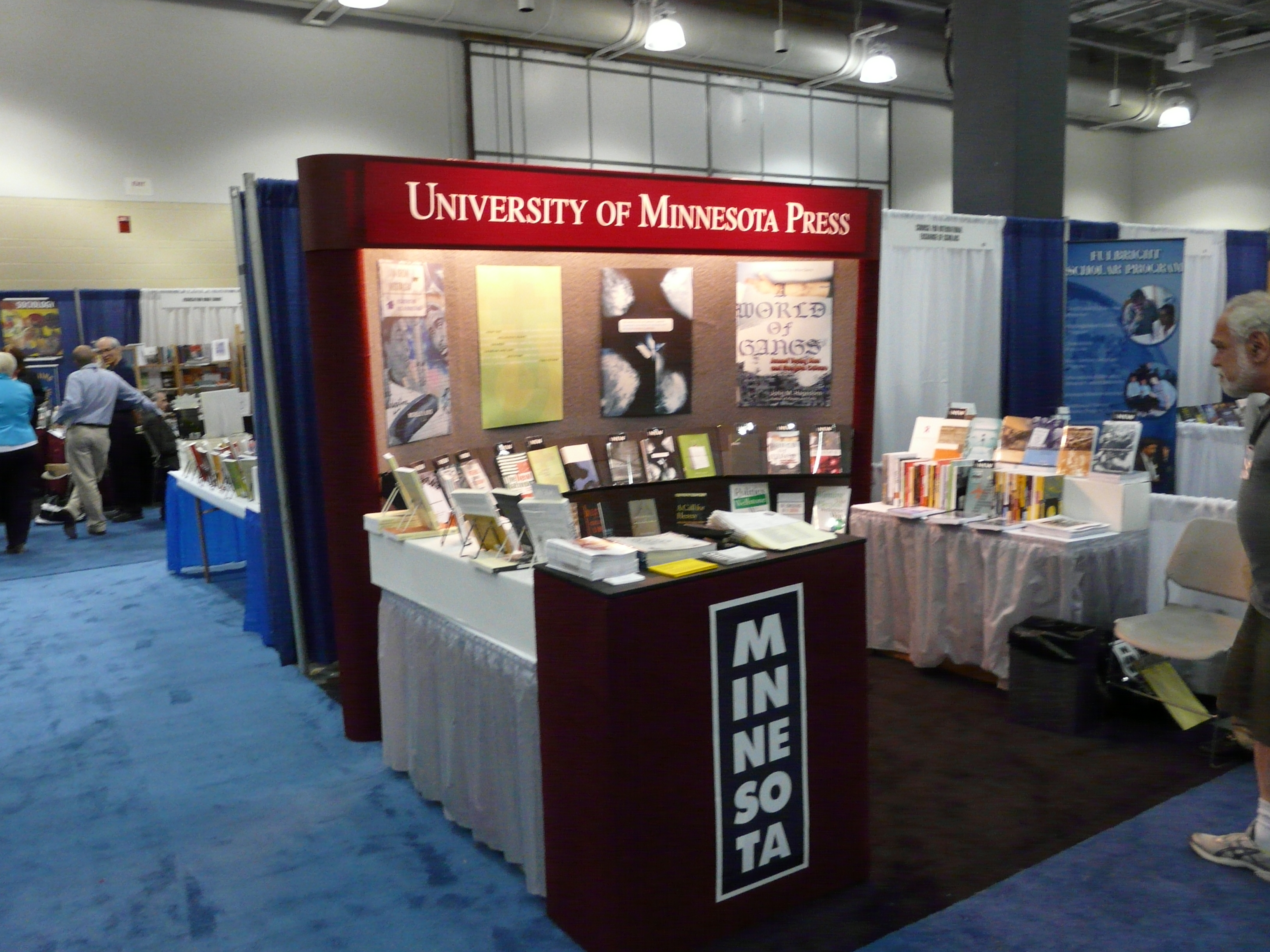 Boston. American Sociological Association conference.